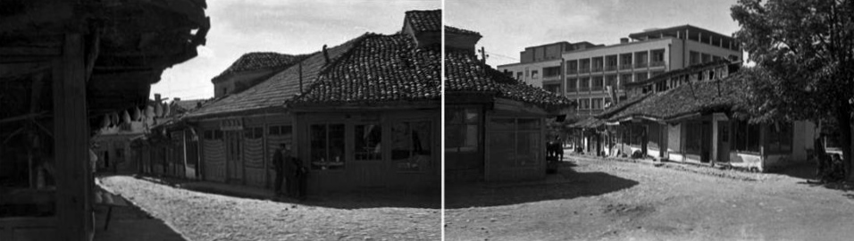 Old Bazaar of Prishtina